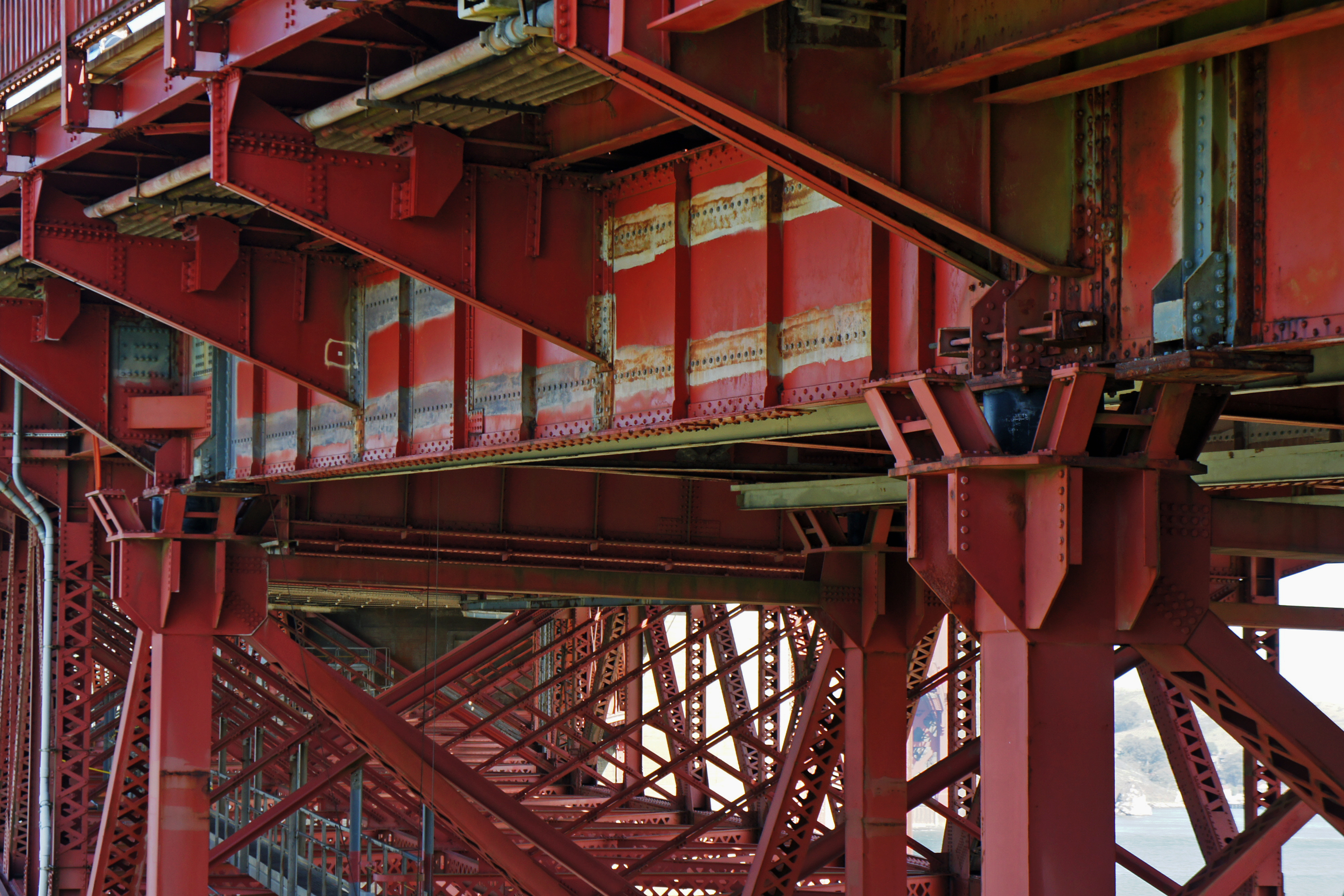 Golden Gate Bridge south approach sub-structure: details of seismic isolation after the Seismic Retrofit Construction Project was completed in 2008. Shown the seismic isolators (short black cylinders) in the bearings and joints added as the result of the 1989 Loma Prieta Earthquake.